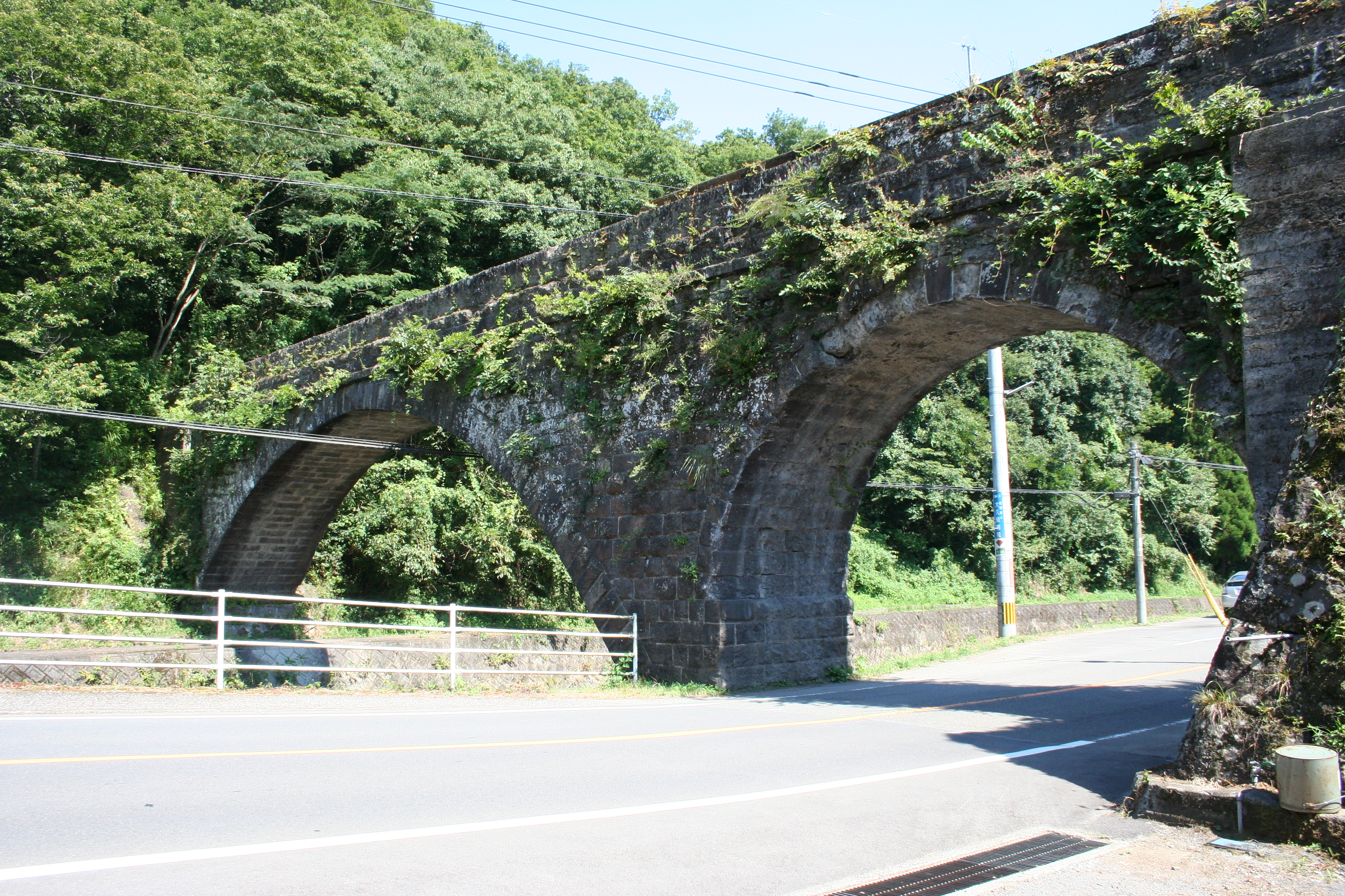 Description: Kagami Stone Arch Water Bridge(1909). Taketa-city, Oita Prefecture, Japapn. 若宮井路鏡石拱橋。大分県竹田市にある石造2連アーチ(アーチの大きさは道幅・川幅にそれぞれ合わせてある)の水路橋。笹無田水路橋の上流側にある。 Source: self-made Date=2007/08/17 Photographer: Tsutsui Mizuki